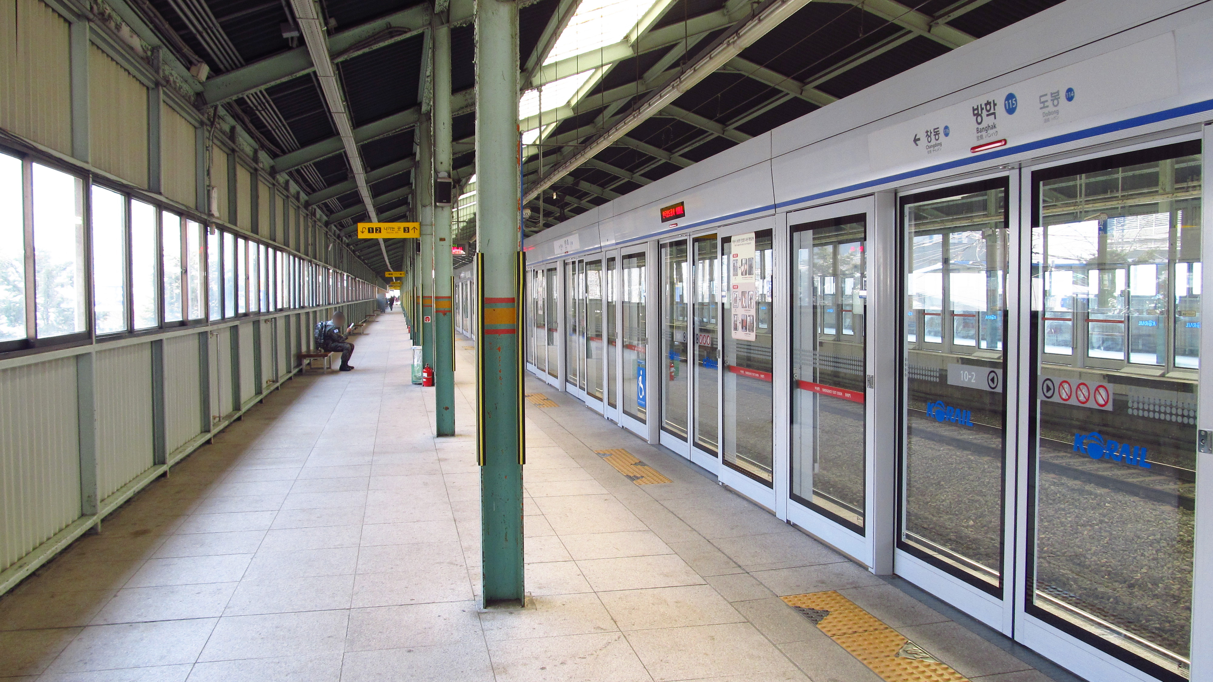 The platform at Banghak Station on Seoul Subway Line 1 in Dobong-gu, Seoul, Republic of Korea(South Korea)